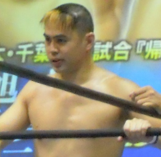 Japanese professional wrestler,TAKA Michinoku.Aug 15 2010 KAIENTAI-DOJO Chiba Port Arena.